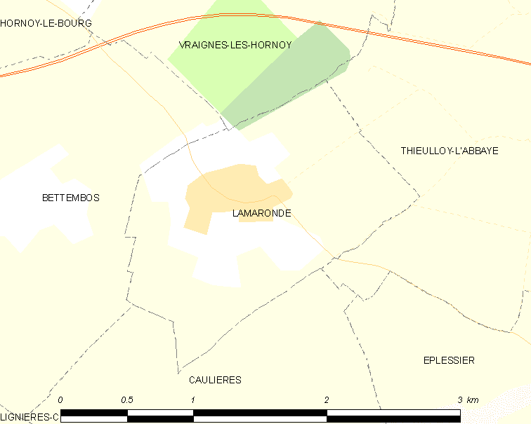 Map of French municipality Lamaronde